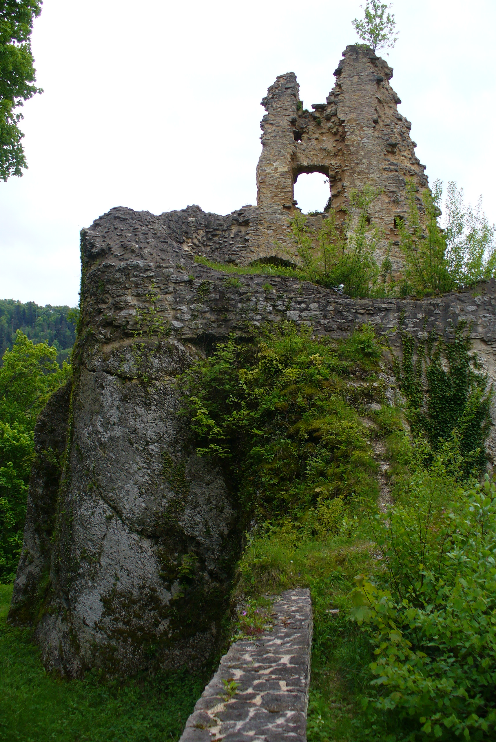 Castle Morimont - Donjon